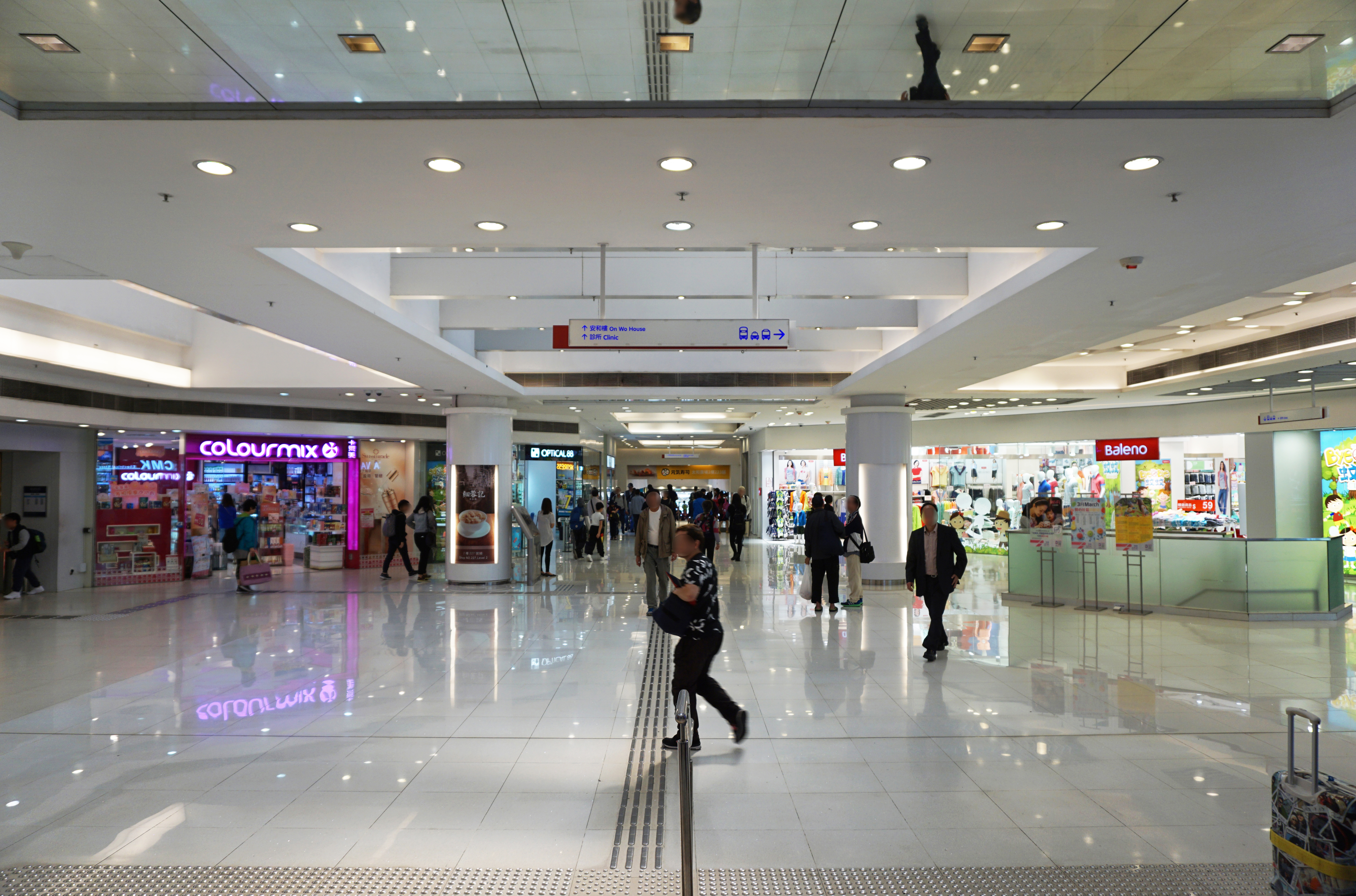 Tai Wo Plaza in Tai Po, Hong Kong.